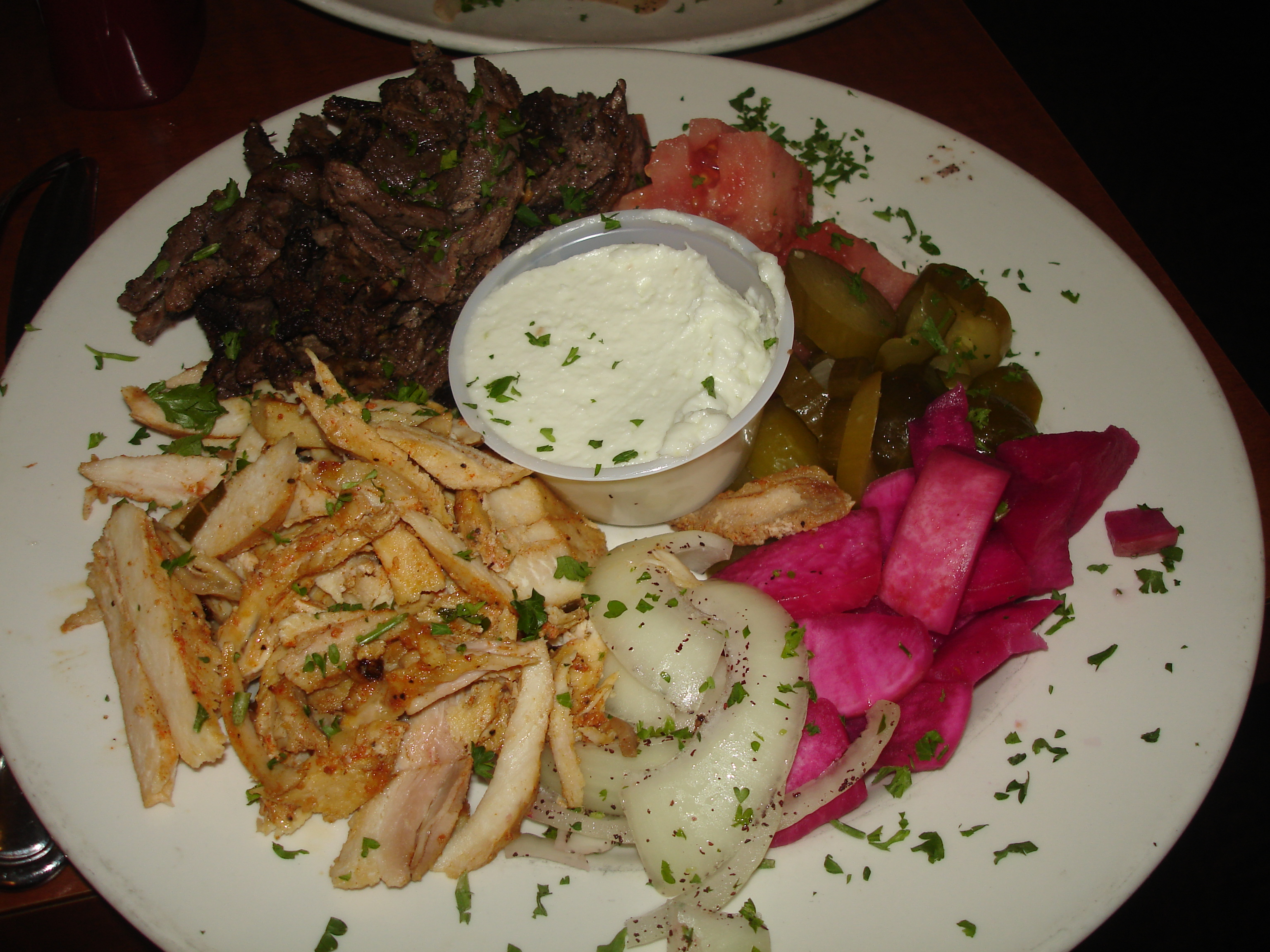 Iraqi cuisine-Mixed Shawarma platter